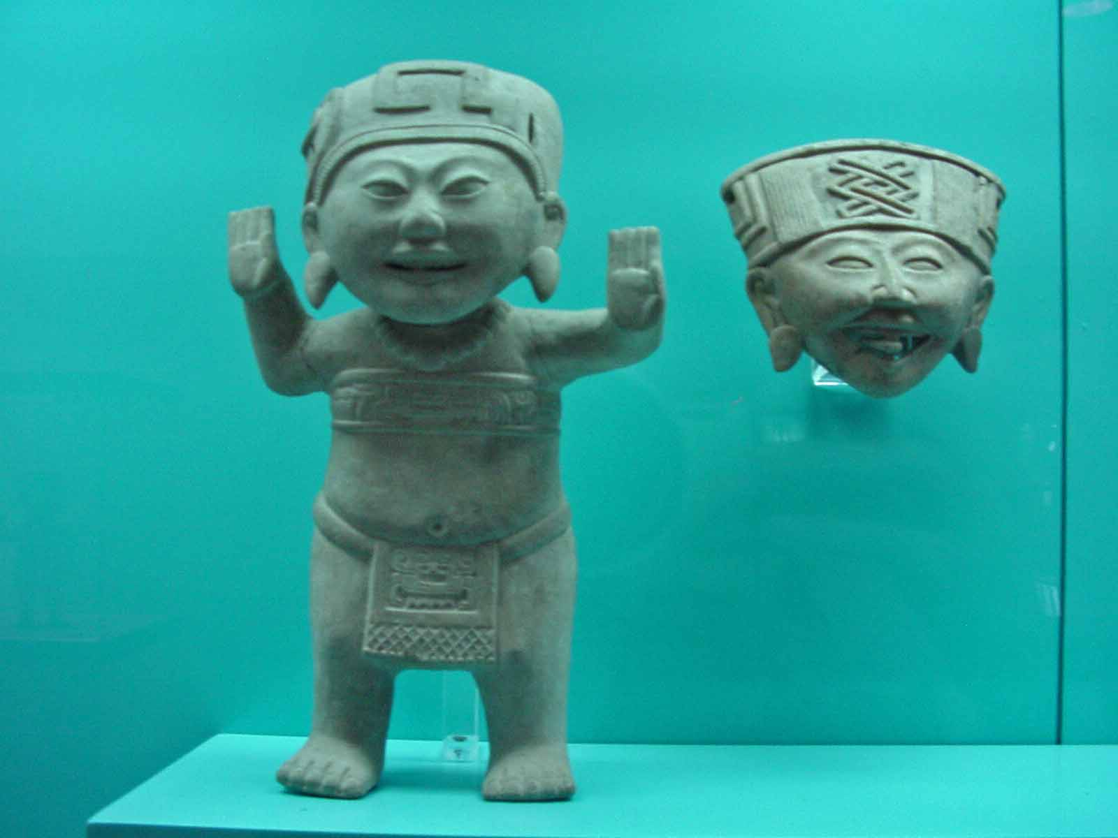 This photo shows a Remojadas figurine and head.